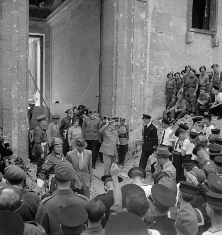 Winston Churchill in Berlin, July 1945 Prime Minister Winston Churchill leaves the ruins of Adolf Hitler's Chancellery in Berlin, Germany, on 16 July 1945.